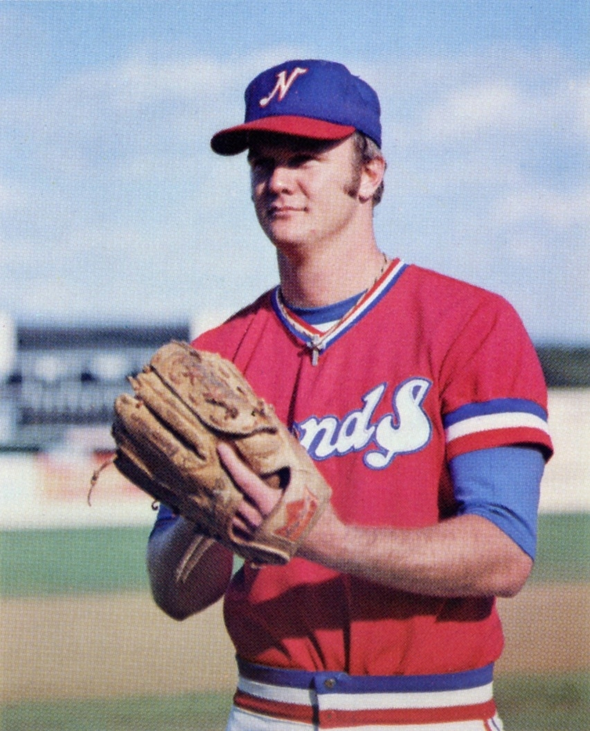 Pitcher Scott Brown of the 1979 Nashville Sounds Minor League Baseball team of the Southern League